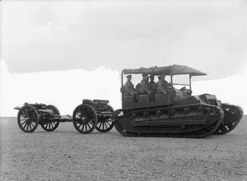 BRITISH MILITARY VEHICLES 1918-1939. Dragon, Medium Artillery Tractor Mk.I, towing an 18 pounder Mk IV field gun and limber.